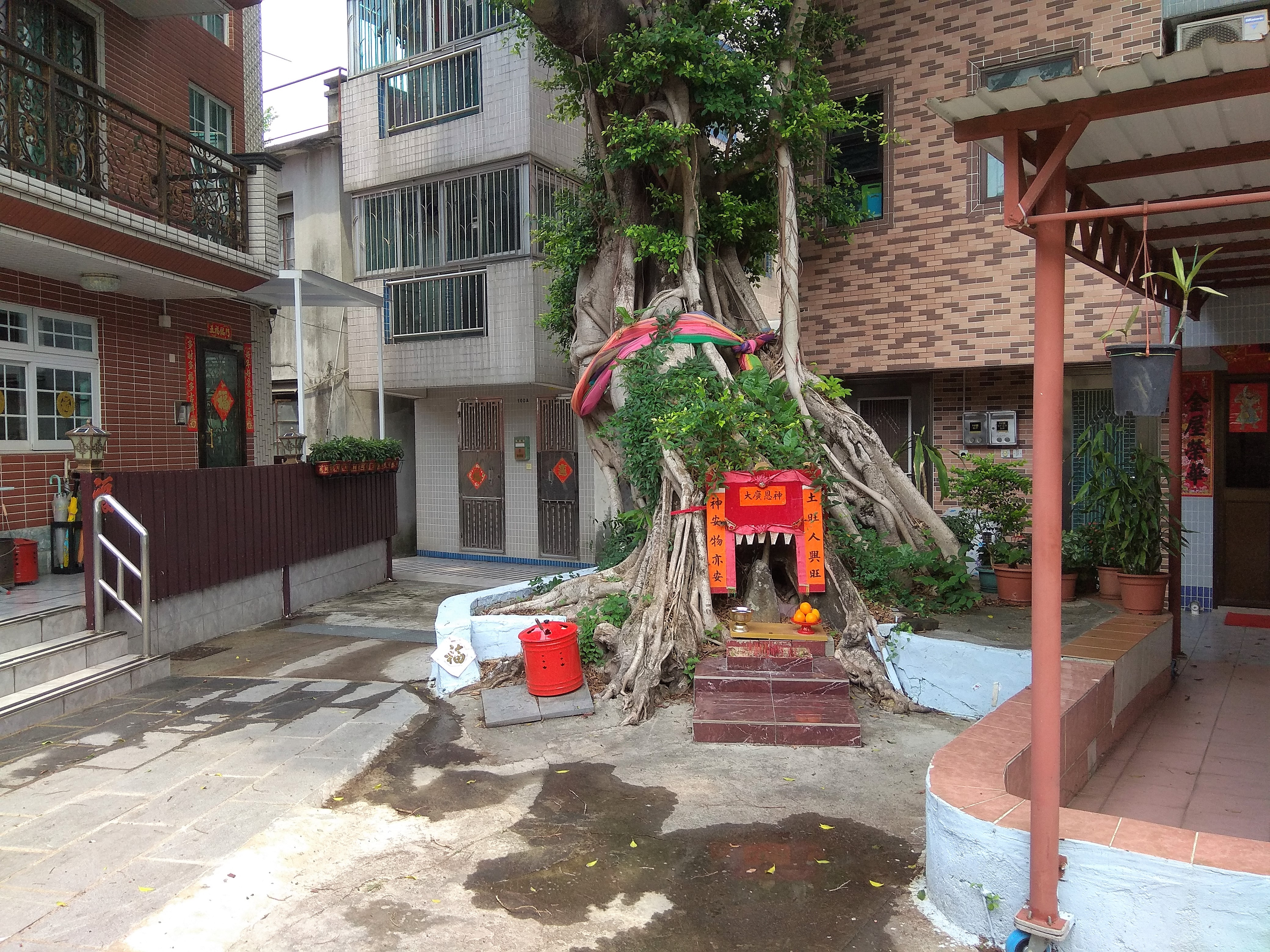 Tung Tau Wai